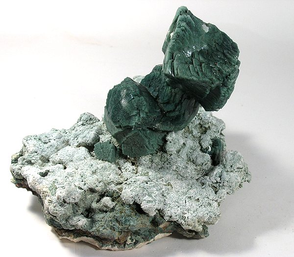 Celadonite, Heulandite-Ca Locality: Jalgaon District, Maharashtra, India (Locality at ) Size: cabinet, 10.8 x 9.2 x 7.7 cm Heulandite included by Celadonite Rising majestically from whitish-green matrix are a series of large heulandite crystals to 4.5 cm across. These have been heavily invested by celadonite in an unusual dark green color. This is a truly dramatic specimen as most are not associated with good matrix and this one is not only associated, but starkly perched upon a well-trimmed matrix. It is actually elegant, instead of clunky as you would have expected of the material from past experience.